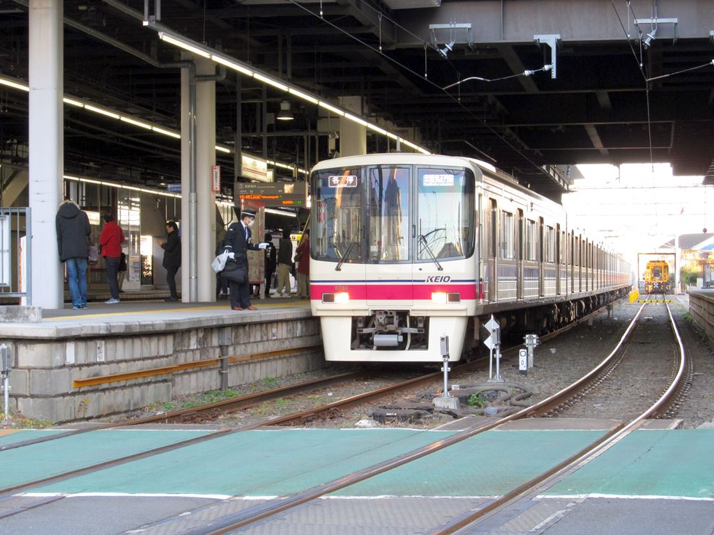 A Keio 8000 series EMU at Higashi-Fuchū Station